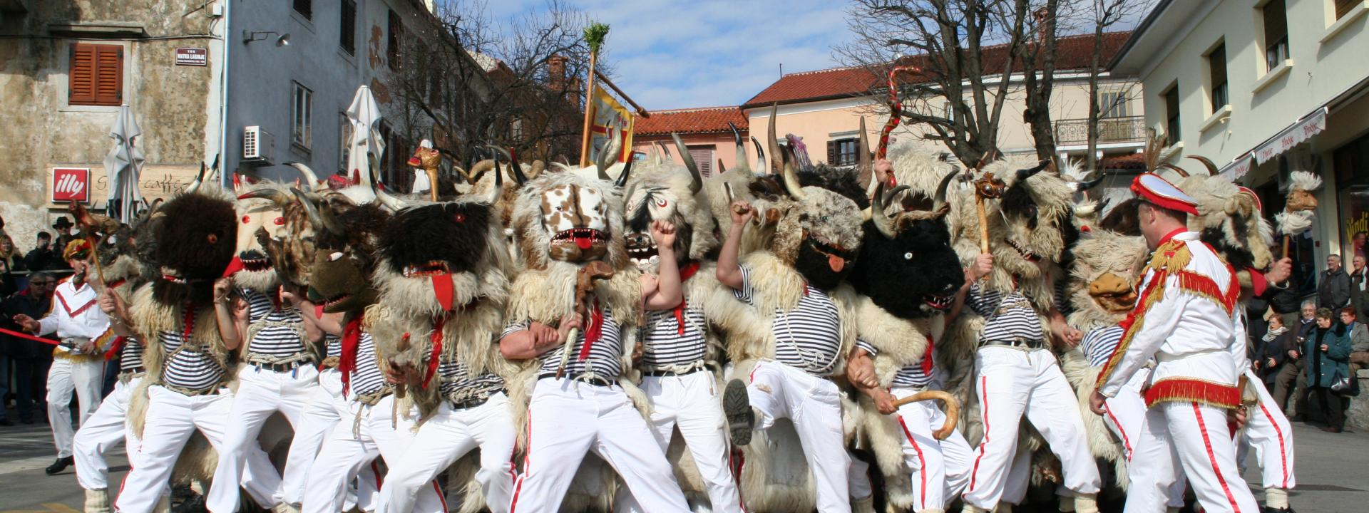 Halubajski zvončari